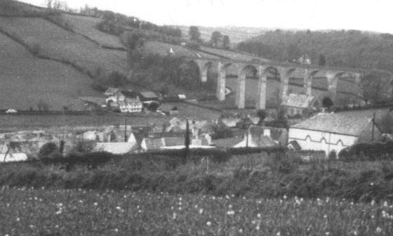 Calstock Viaduct over the Tamar river near Calstock railway station in Cornwall.